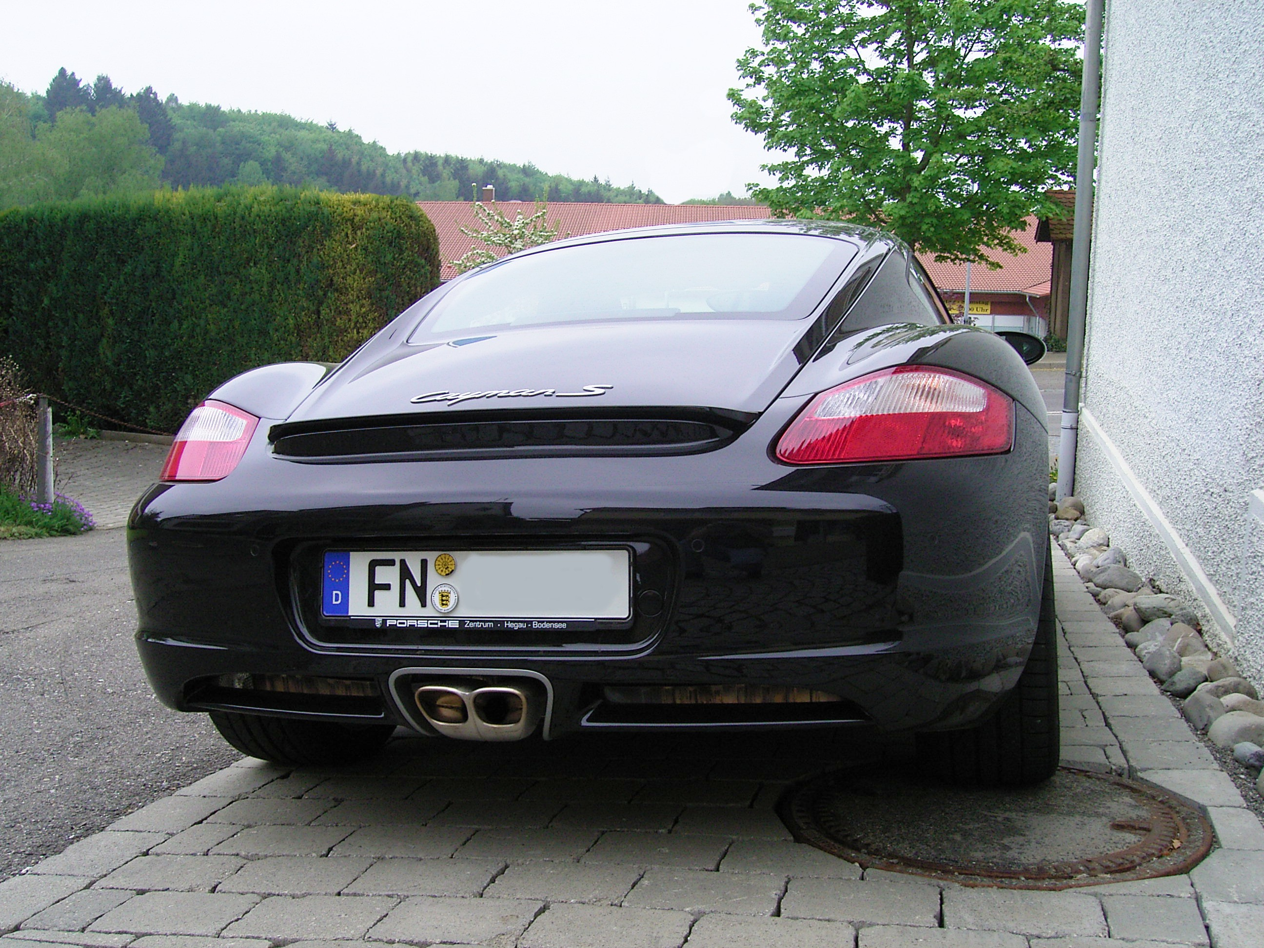 A black Porsche Cayman in Front-left view